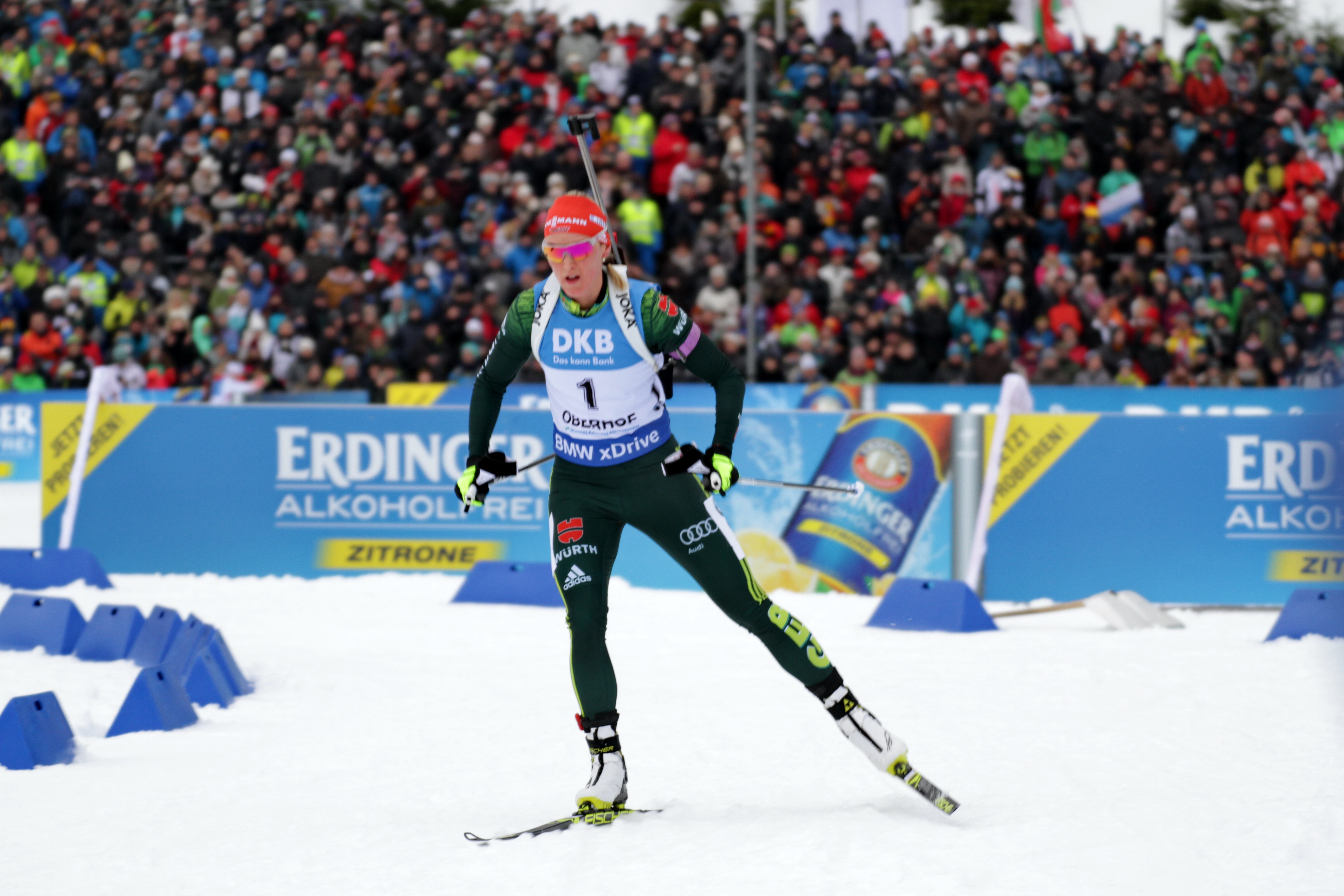 2018 Oberhof Biathlon World Cup - Sprint Women